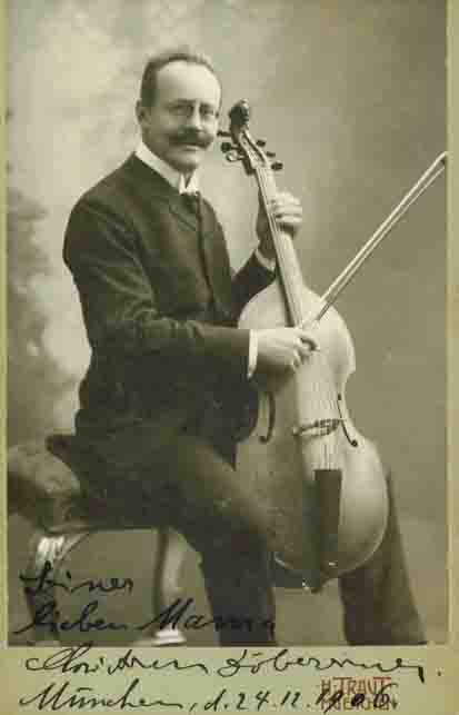 Christian Döbereiner with Viola da Gamba